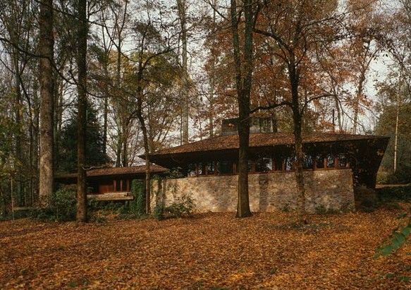 Broad Margin, 9 West Avondale Drive, Greenville (Greenville County, South Carolina) - (cropped)